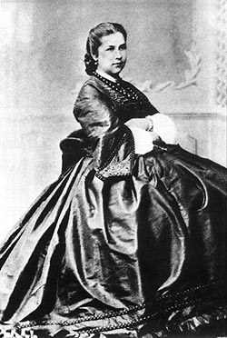 Alexander Petrovna Lanskaja (1845—1919) - daughter N.N.Goncharova from 2nd marriage.